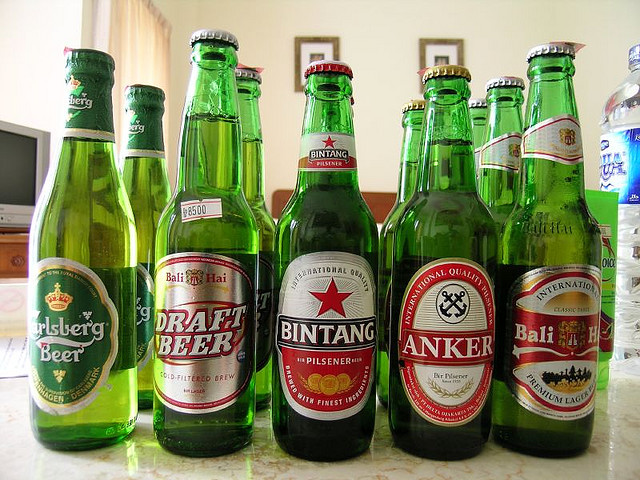 Carlsberg, Bali Hai, Bintang, and Anker beer. Use of this photo must credit Ryan McFarland with a link to